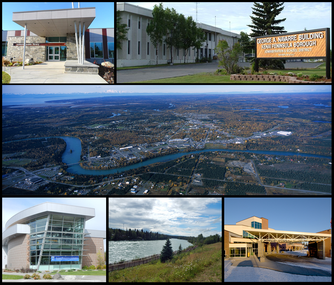 City of Soldotna Collage including the city library, Kenai Peninsula College, Soldotna Creek Park, the Central Peninsula Hospital, the Kenai Peninsula Borough Building, and an aerial of the city.